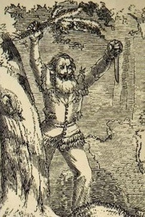 Image shows the mountain man, John Turner, defending his camp during an Indian attack in 1835. This image is based on an engraving by C. Nahl entitled "The Frightened grizzly." It was published as an illustration in The adventures of James Capen Adams, mountaineer and grizzly bear hunter, of California; published in San Francisco by Towne & Bacon, 1860; original illustration is on p. 111. The original Public Domain image was cropped and modified in 2015 to show an important event in John Turner's life.